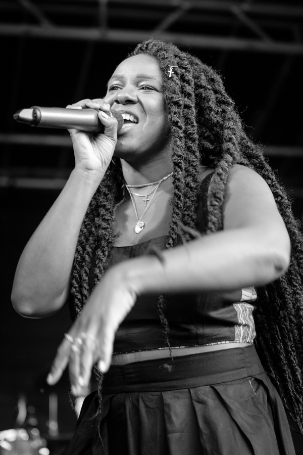 Nao at the Triangel stage in the Vigeland Park. The concert was part of Piknik i Parken and took place on 15. June 2018 in Oslo. Lineup:Nao (vocal)Unidentified (drums)Unidentified (keyboard)Unidentified (bass guitar)Unidentified (guitar)